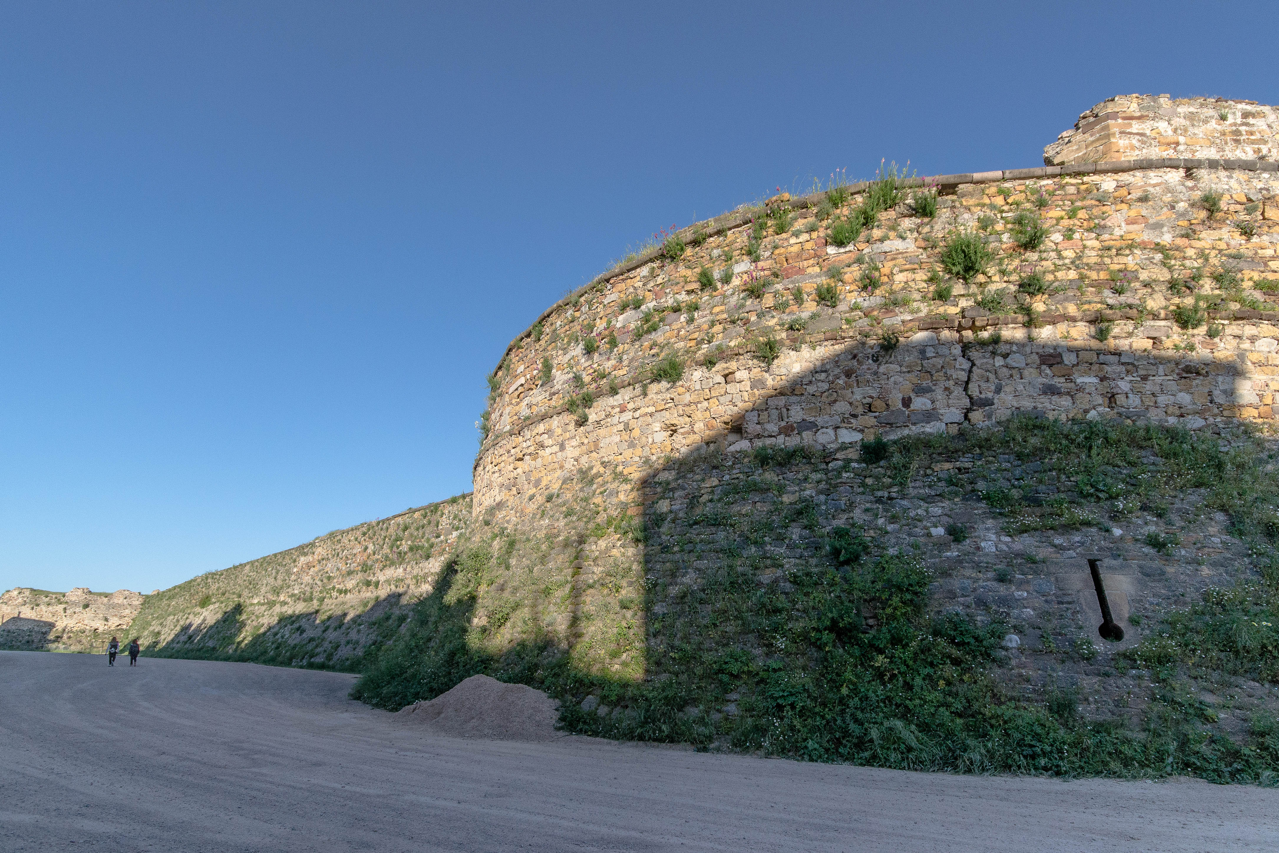 The external view of the north-eastern wall of the Genoese castle in Chios.